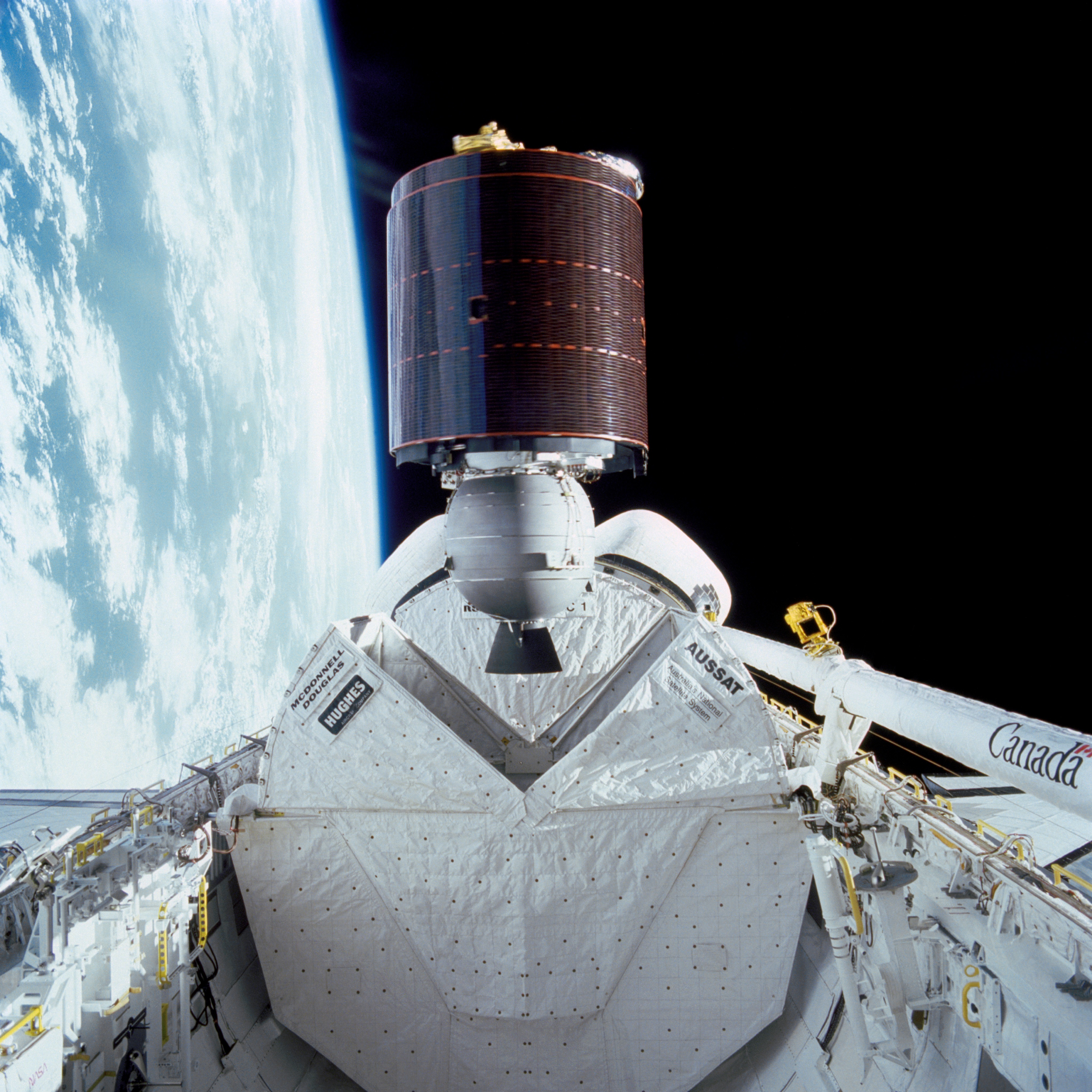 View of the AUSSAT-1 satellite after deployment on STS-51-I. Australia's AUSSAT communications satellite is deployed from the payload bay of the Shuttle Discovery. A portion of the cloudy surface of the earth can be seen to the left of the frame.